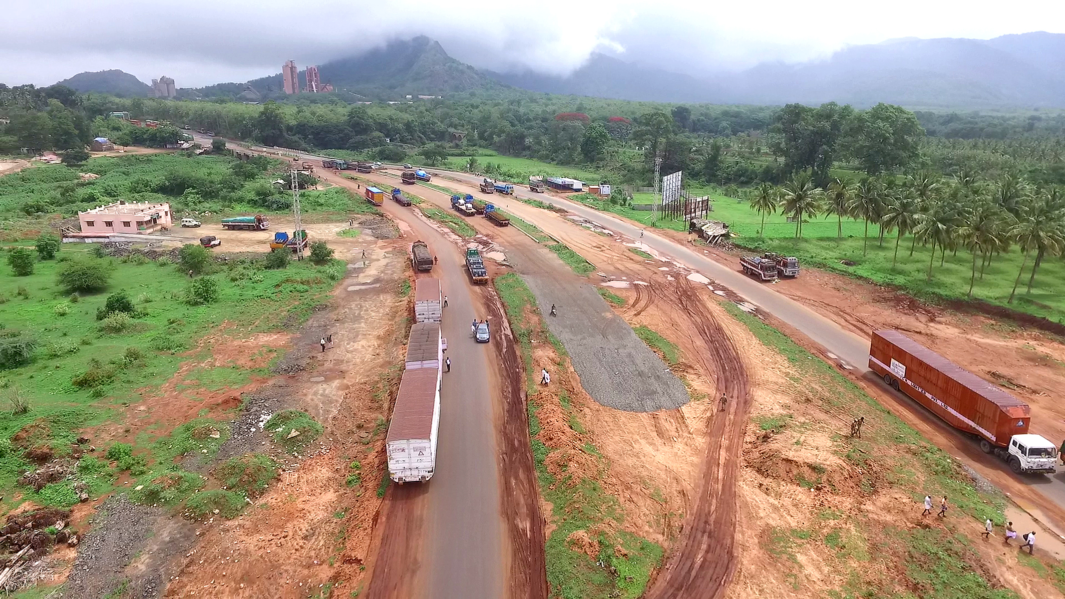 This photo was taken at walayar (tamilnadu side view)